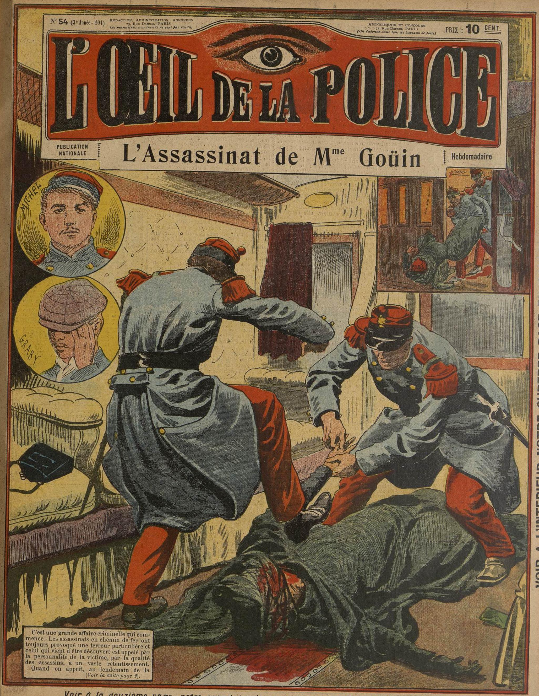 Une de L'Œil de la police, Tome 54, 1910 : L'assassinat de Mme Goüin